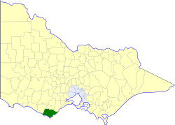 Location of the former Shire of Otway within Victoria.